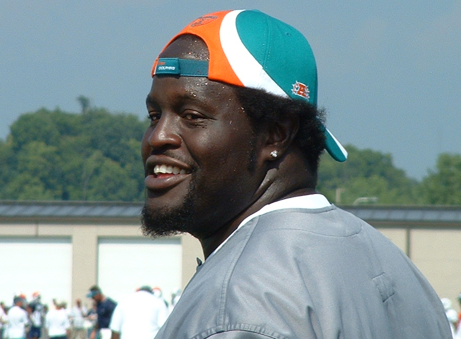 If used somewhere other than Wikipedia, Nelson, by name.